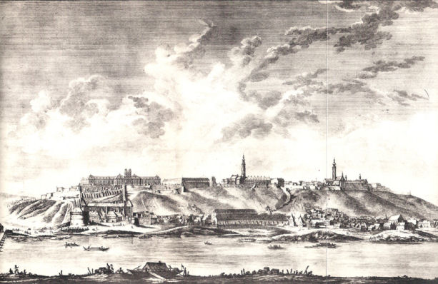 Etching of Queen Maria Theresa's castle at Buda.